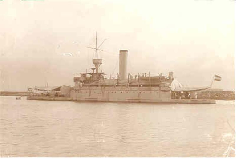 The Dutch coastal defence ship Reinier Claeszen. This ship is often described as a monitor - presumably because of its low freeboard - but with its massive superstructure it more closely resembles a contemporary coastal defence ship.